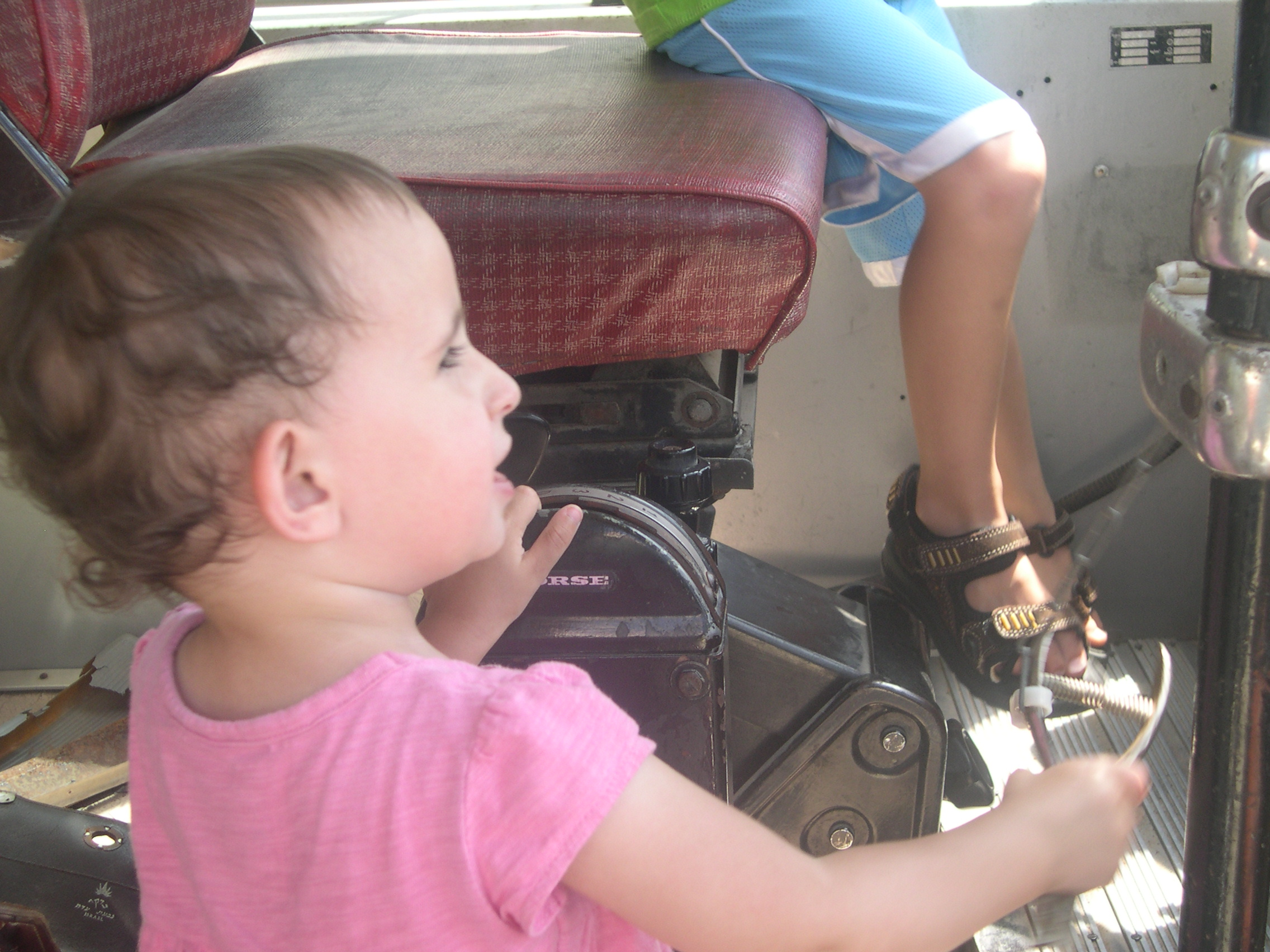 Children on the bus driver seat, Egged Bus Museum, Holon, Israel.